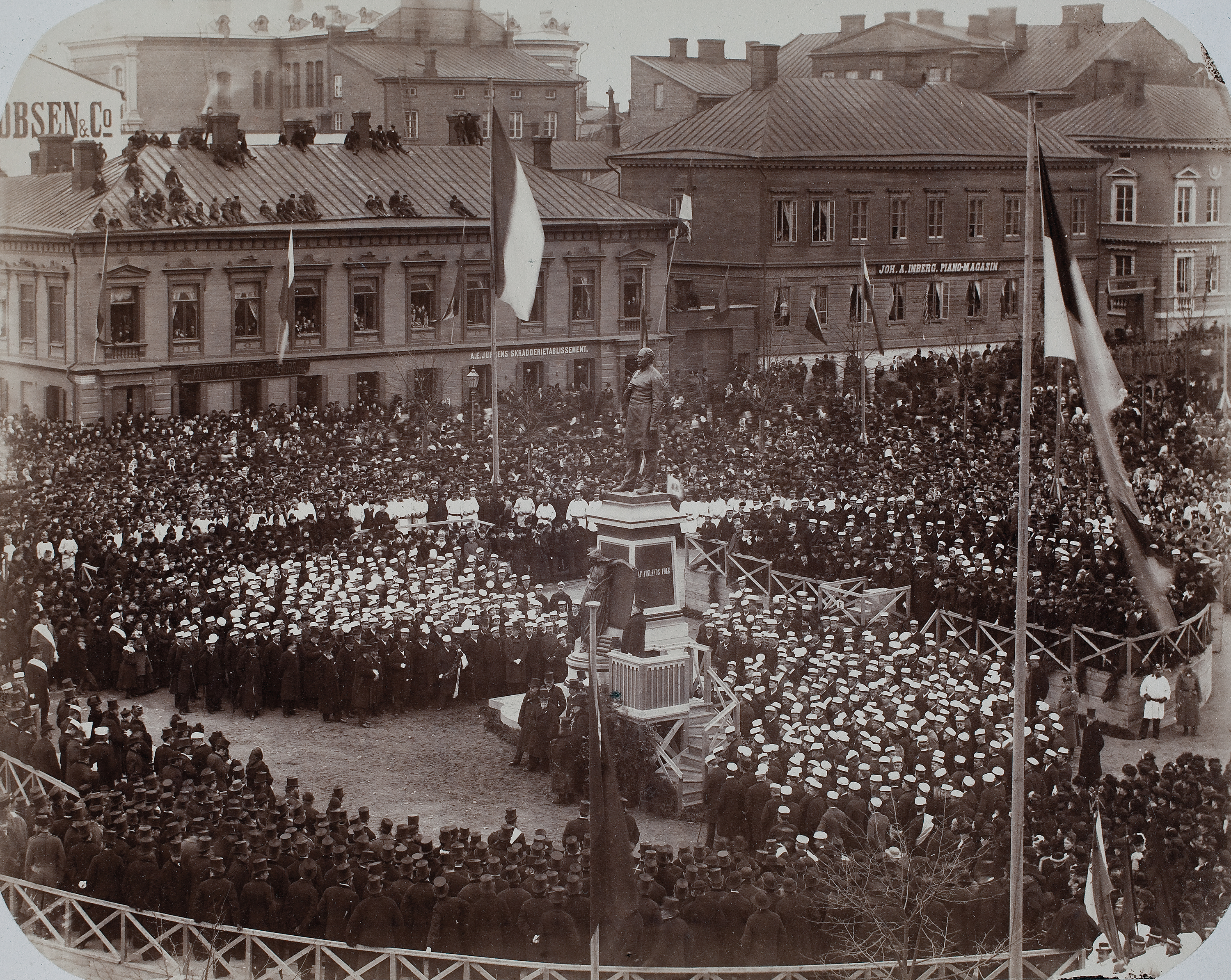 Statue of Johan Ludvig Runeberg in Helsinki, Finland